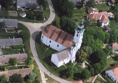 Nagyszékely, Hungary, aerialphotgraphy This is a photo of a monument in Hungary. Identifier: 8681